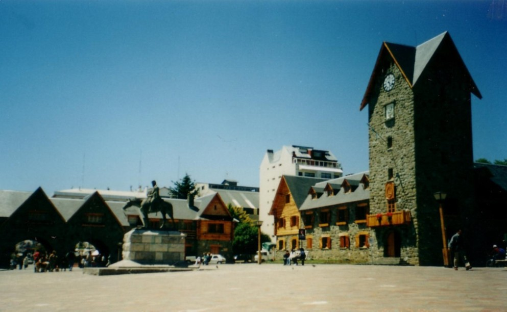 Bariloche City Hall